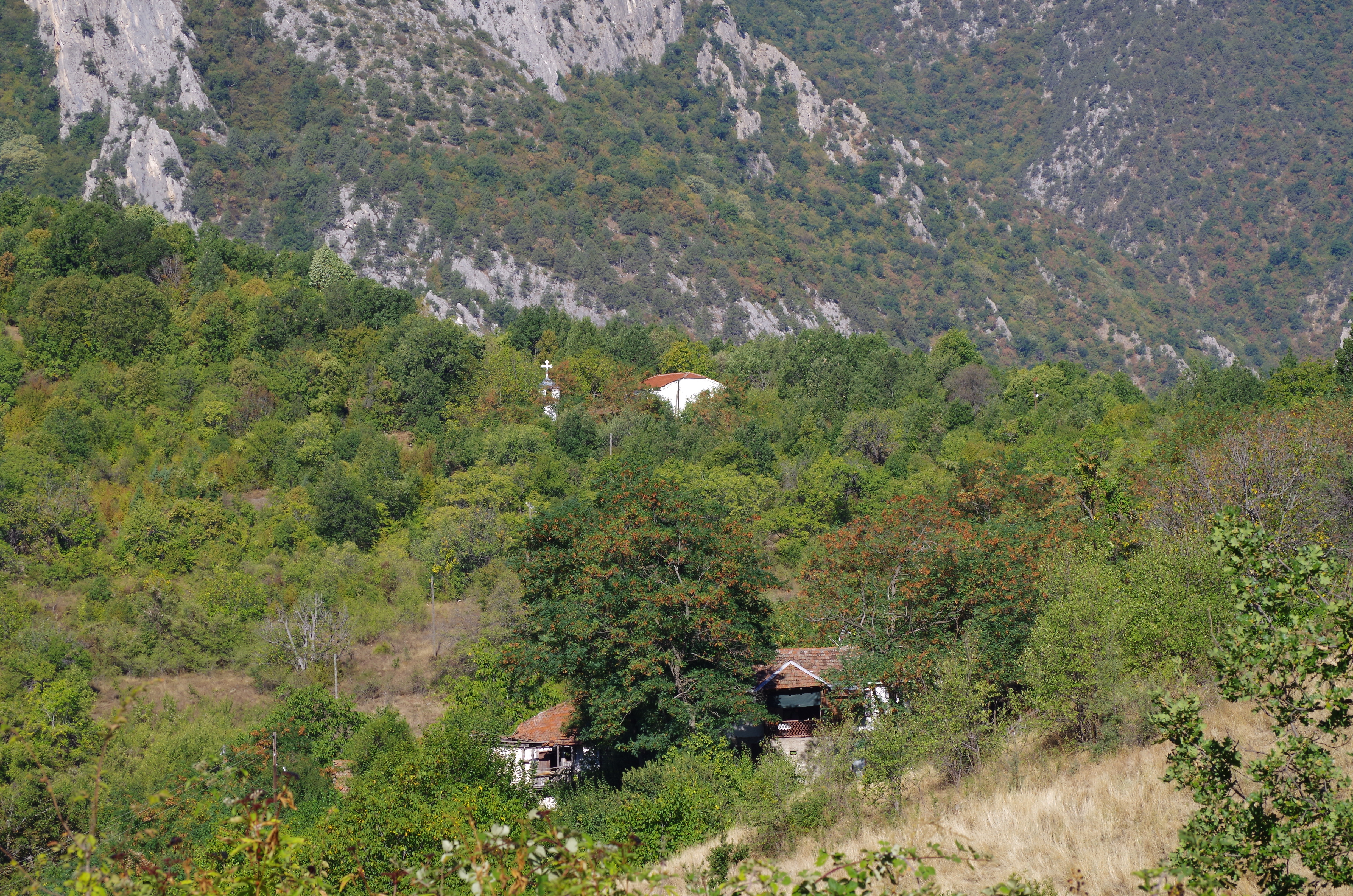 St. Demetrius Church in the village of Mrežičko